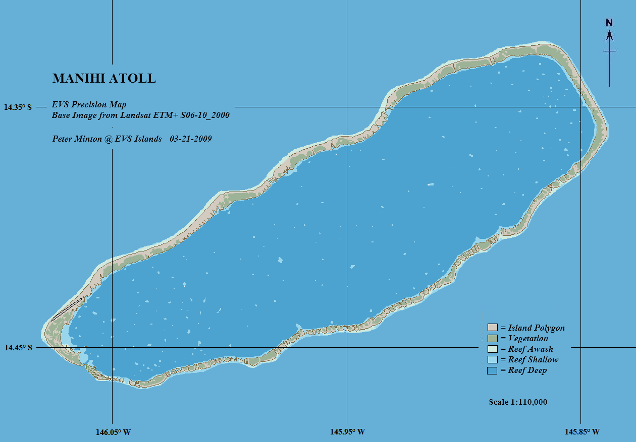 Manihi Atoll, French Polynesia - EVS Precison Map (1:110,000)